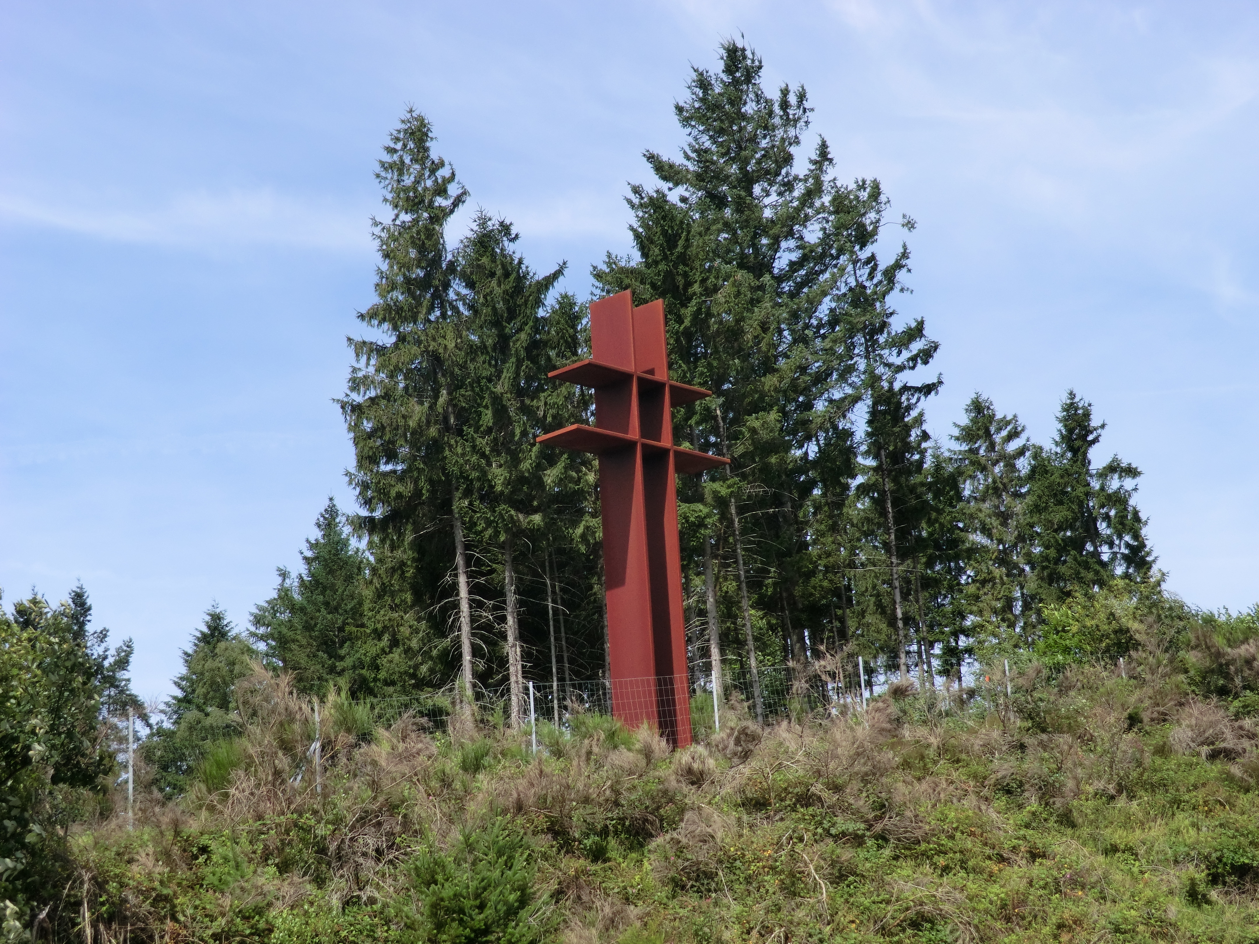 Monument corrézien de la Résistance et de la déportation.